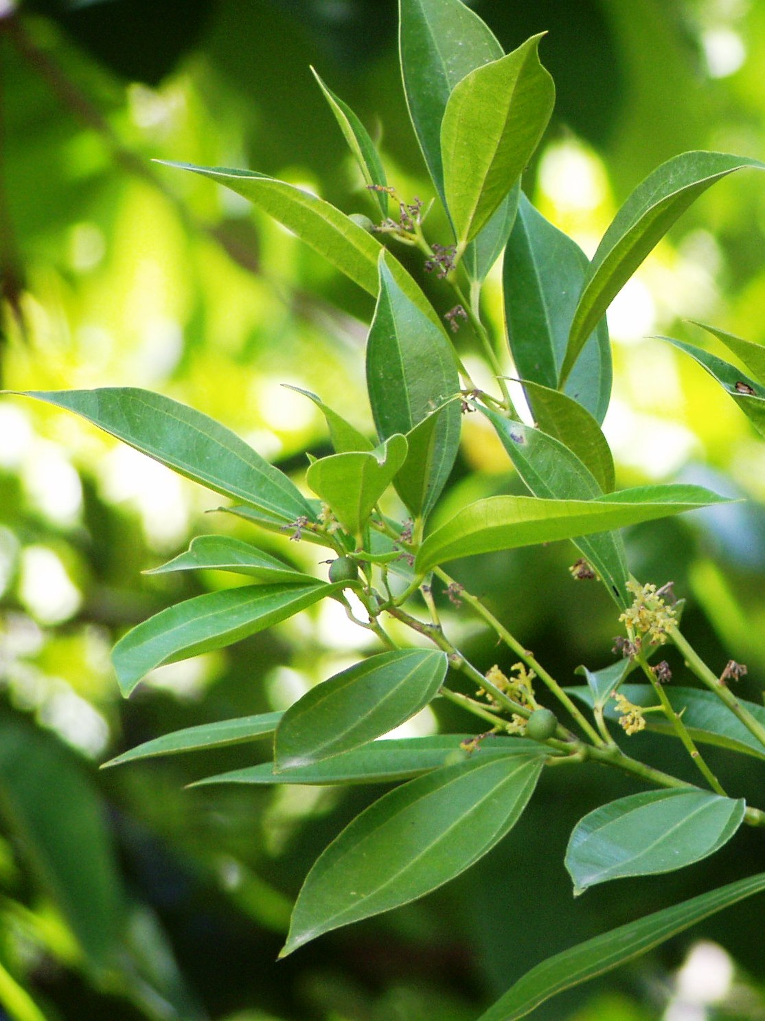 Snailseed. Lisbon Botanic Garden, Portugal.